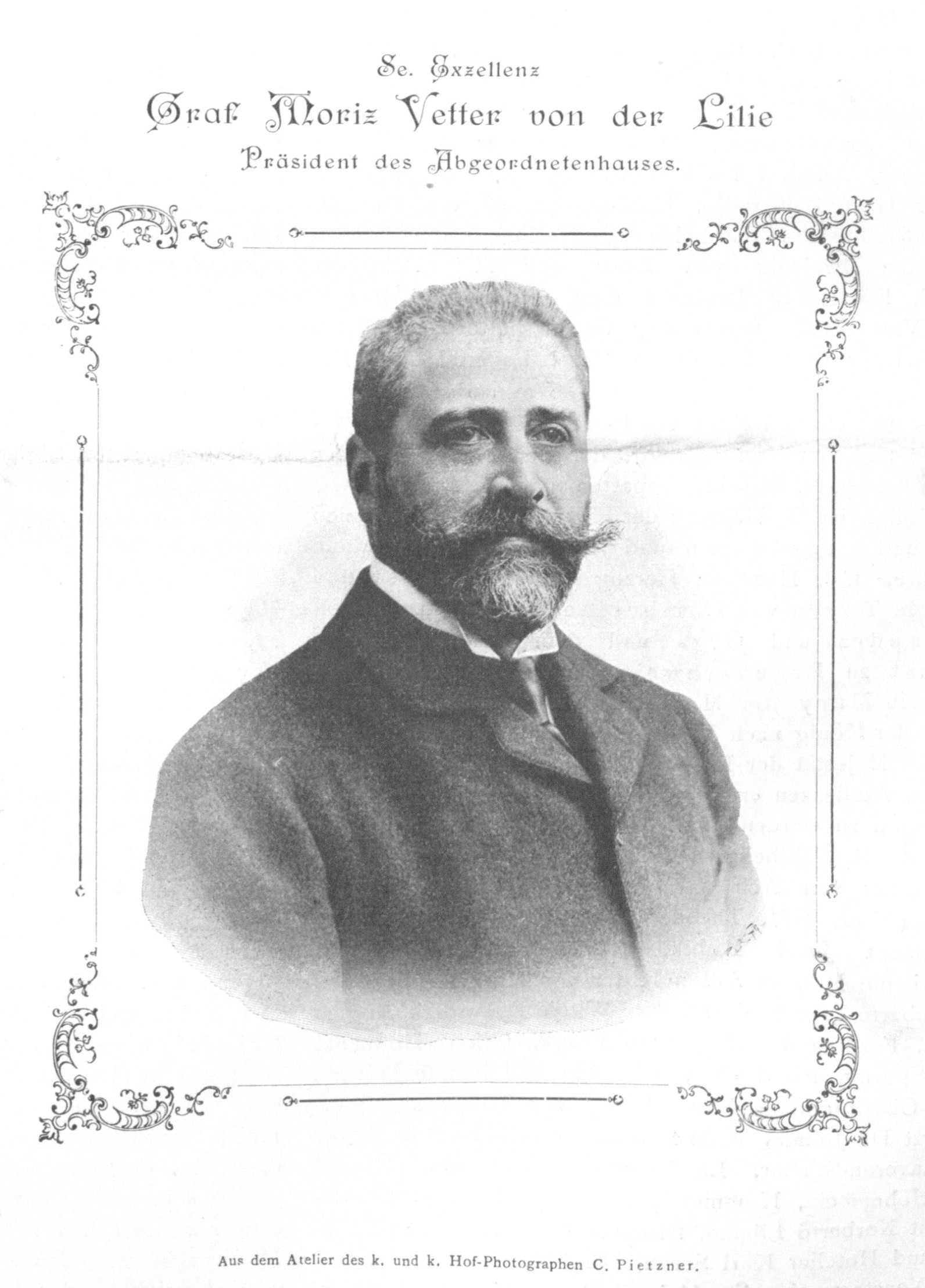 Portrait of Moriz Vetter von der Lilie (1856-1945), Austrian and later Czechoslovak politician.